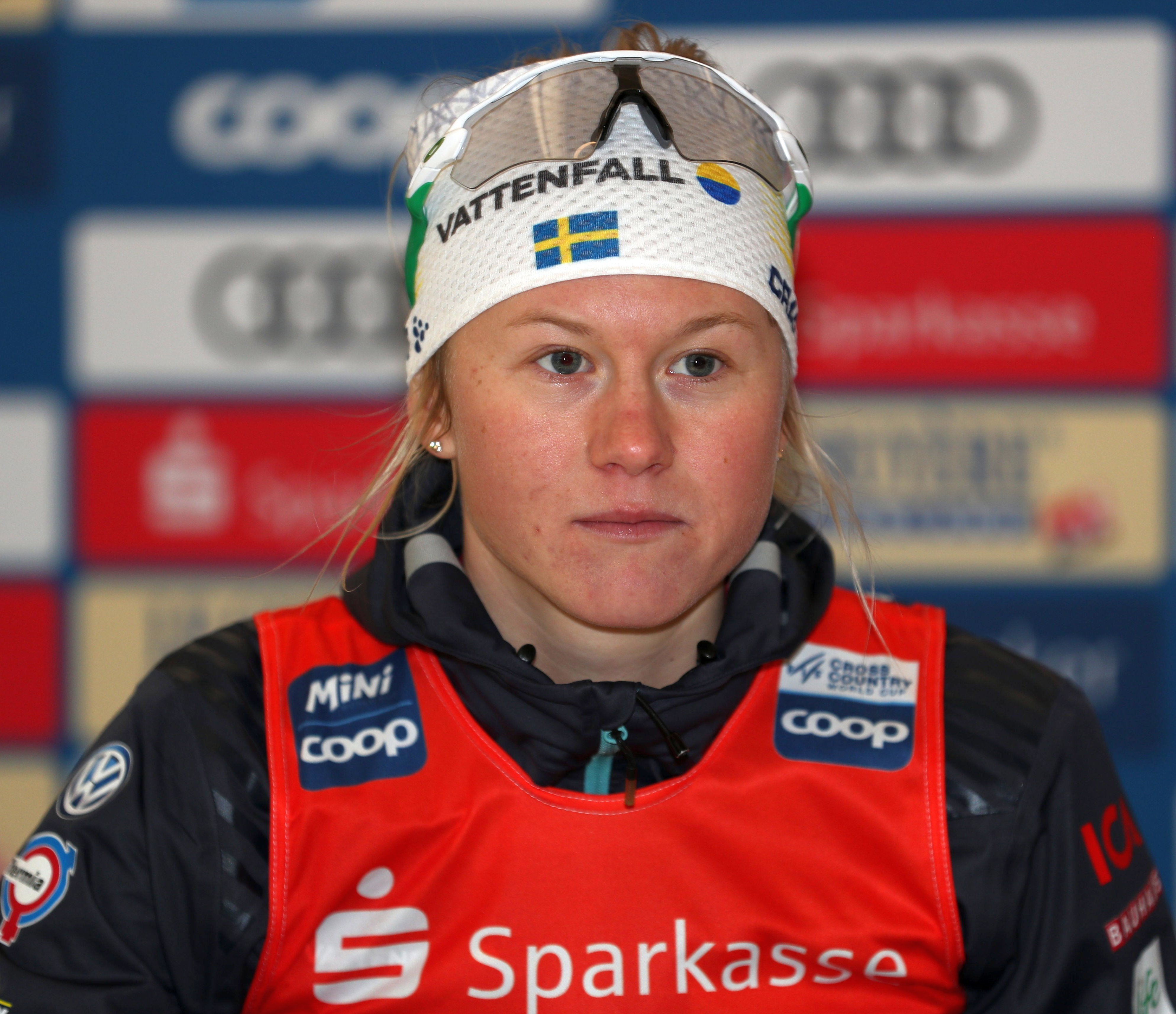 Press Conference at the FIS Cross-Country World Cup Dresden 2019